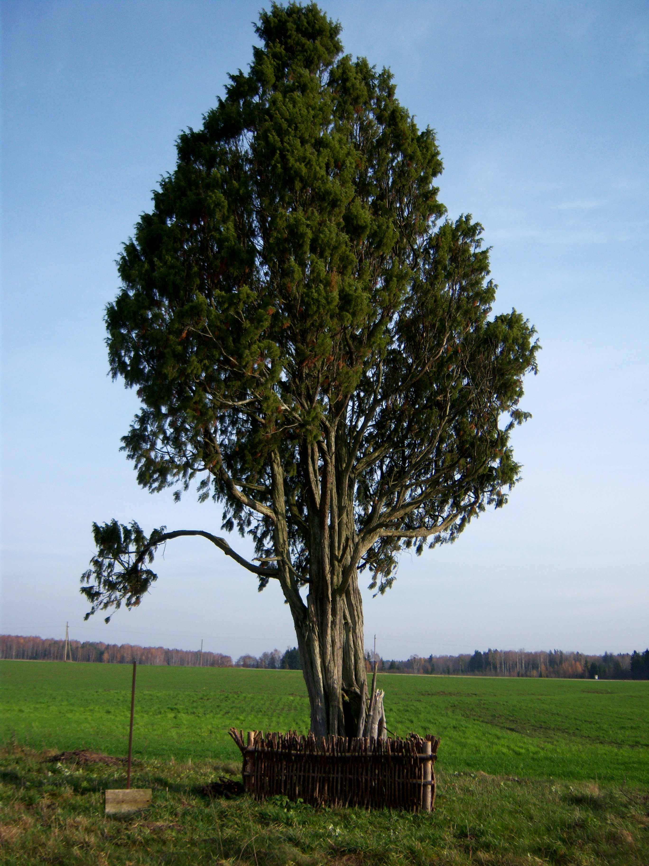 Common juniper (Juniperus communis), in Pakuodžiupiai, Panevėžys District, Lithuania